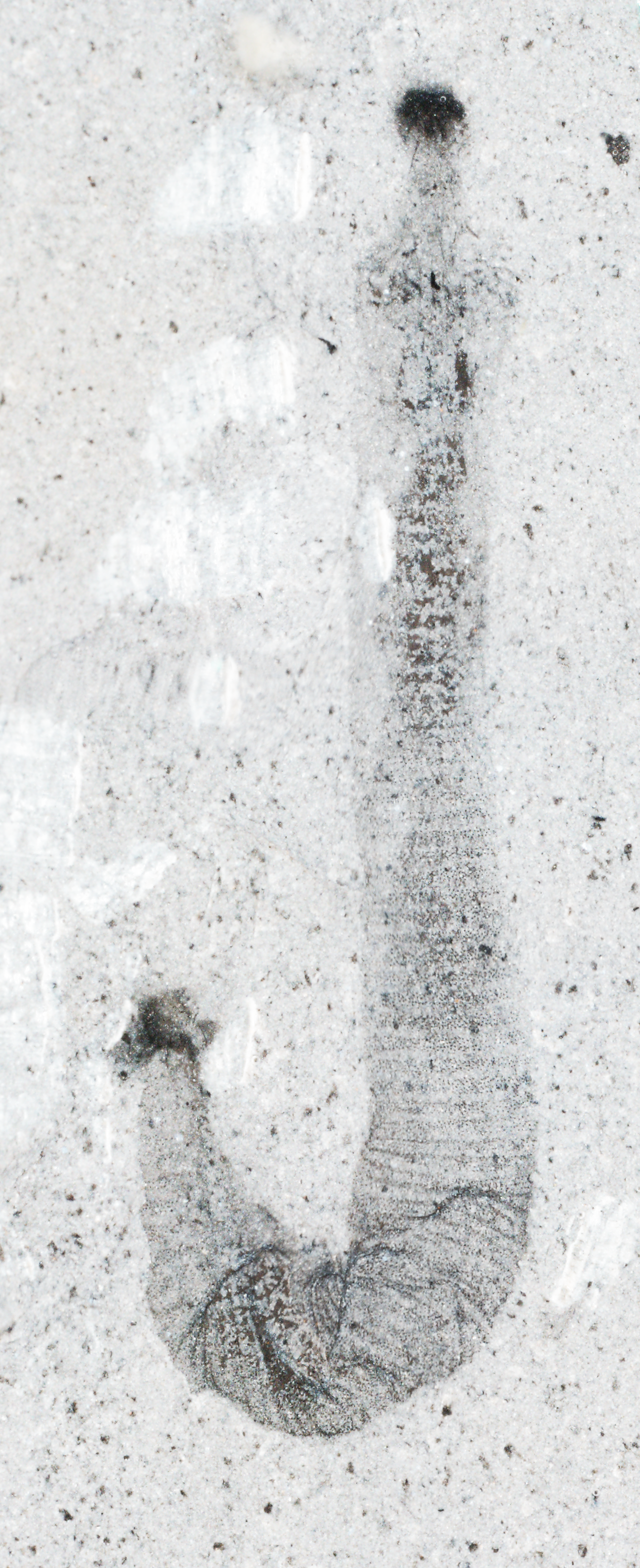 Scathascolex minor from the mid-Cambrian Burgess Shale. NMNH 83939d. Image should be attributed to Smith (2015), File released under CC0 at